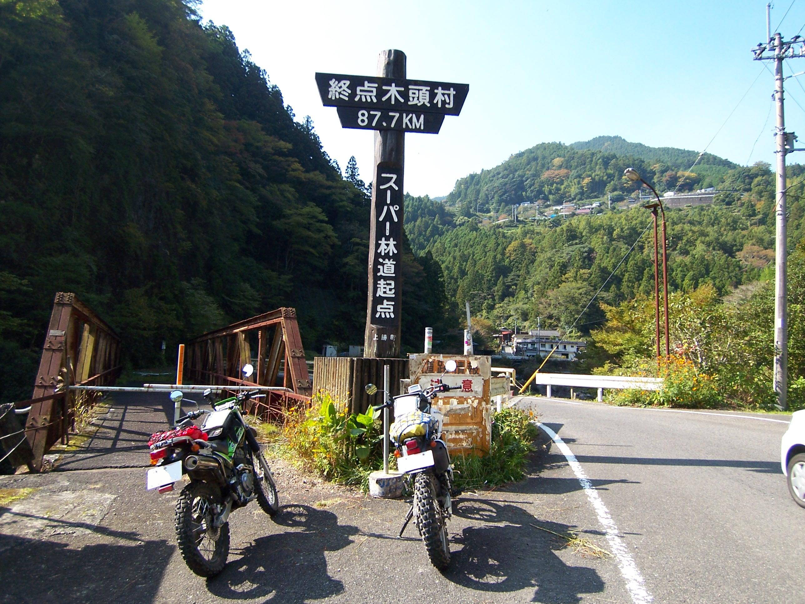 Tsurugi-san super rindo